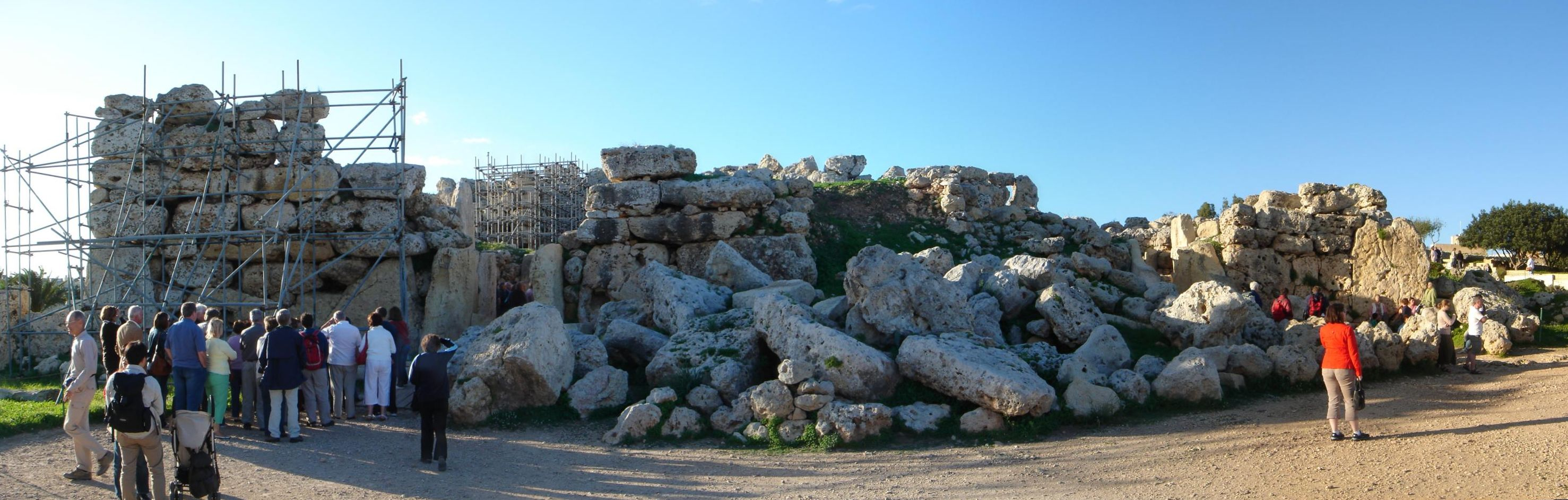 panorama of the Ggantija Megalith